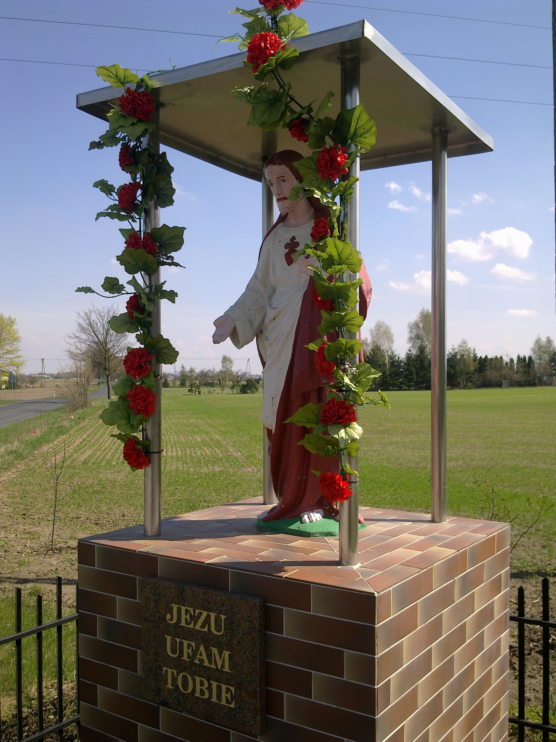 Figure in chapel in village Świesz Poland